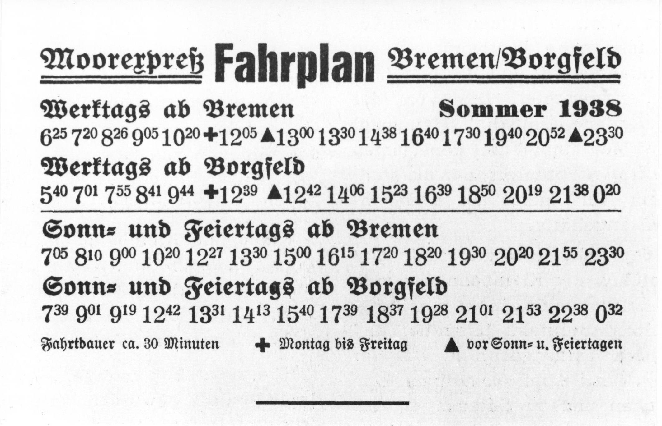 Timetable of the former Bremen - Tarmstedt Railroad "Jan Reiners"